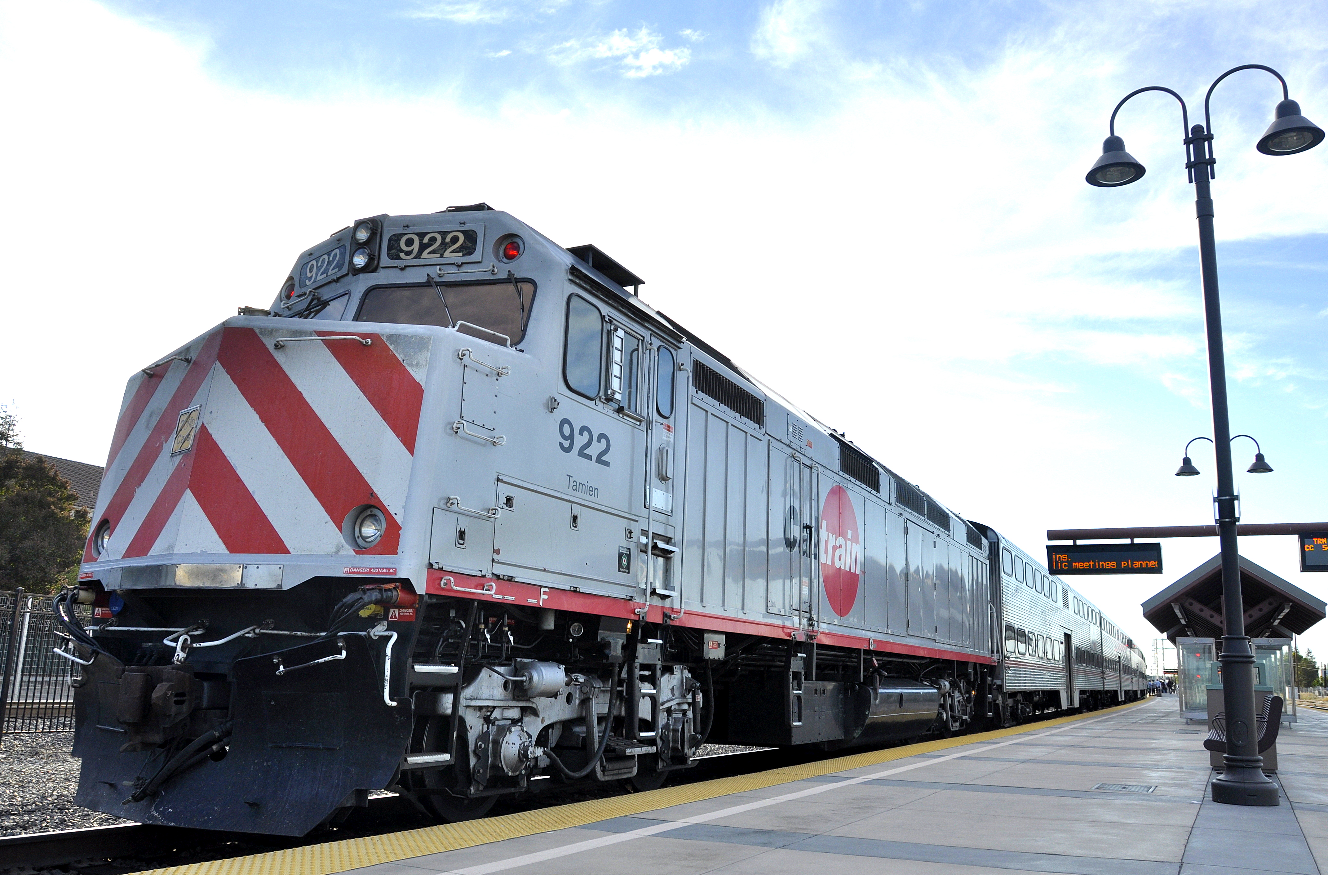 Caltrain JPBX 922 at Santa Clara Station